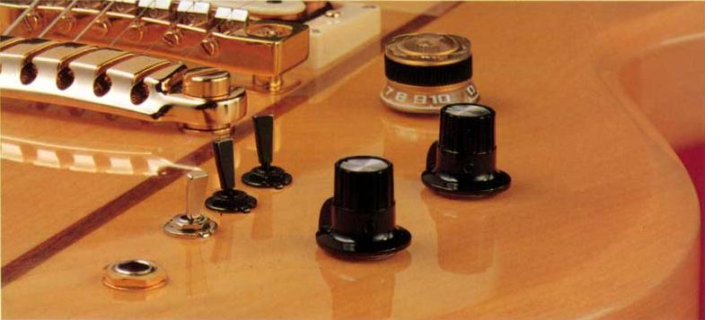 Ibanez_Studio_ST-300_knobs_and_switches